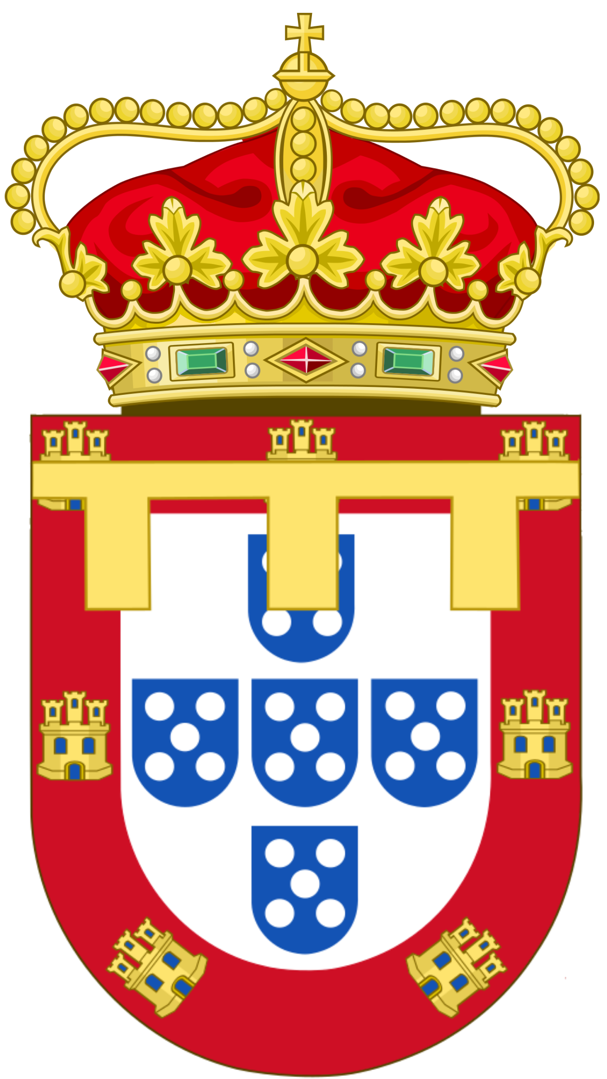 Coat of Arms of the Prince of Portugal (1481-1910) known as Prince of Brazil (1645-1822)